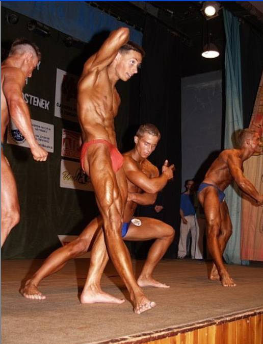 Bodybuilders of the junior class performing a posedown